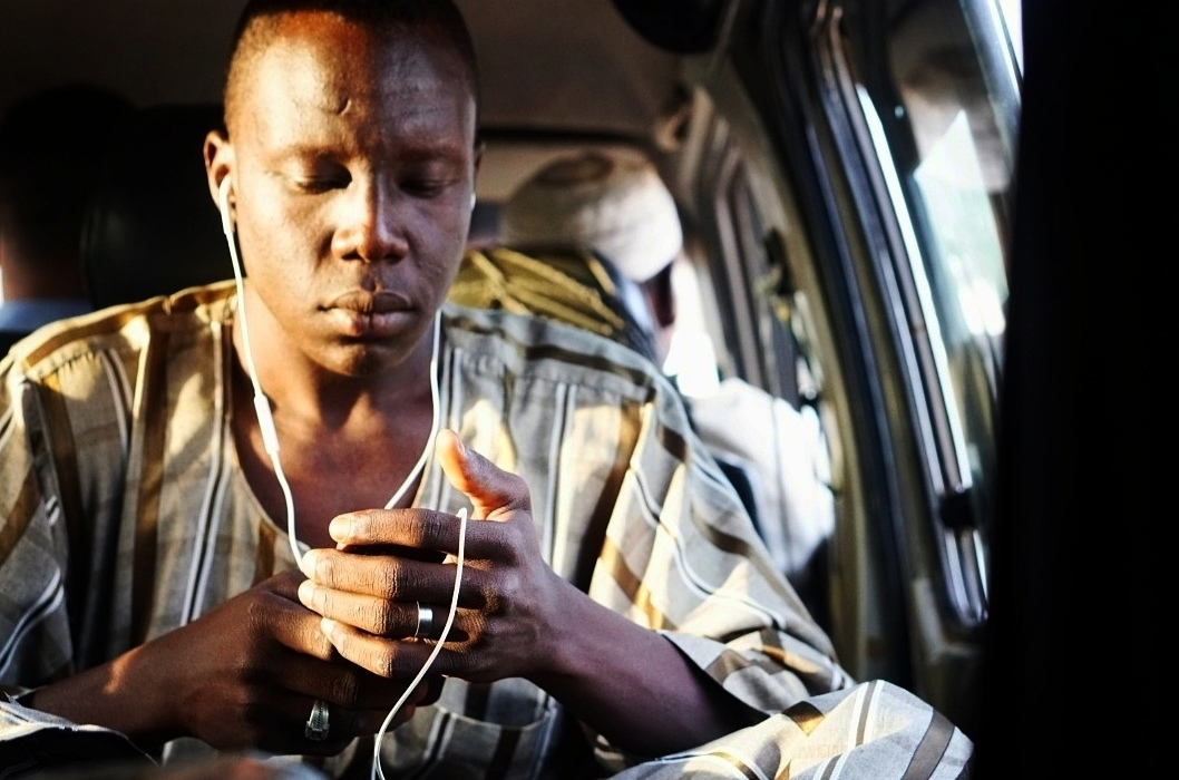 This is an image with the theme "Africa on the Move or Transport" from: Sudan